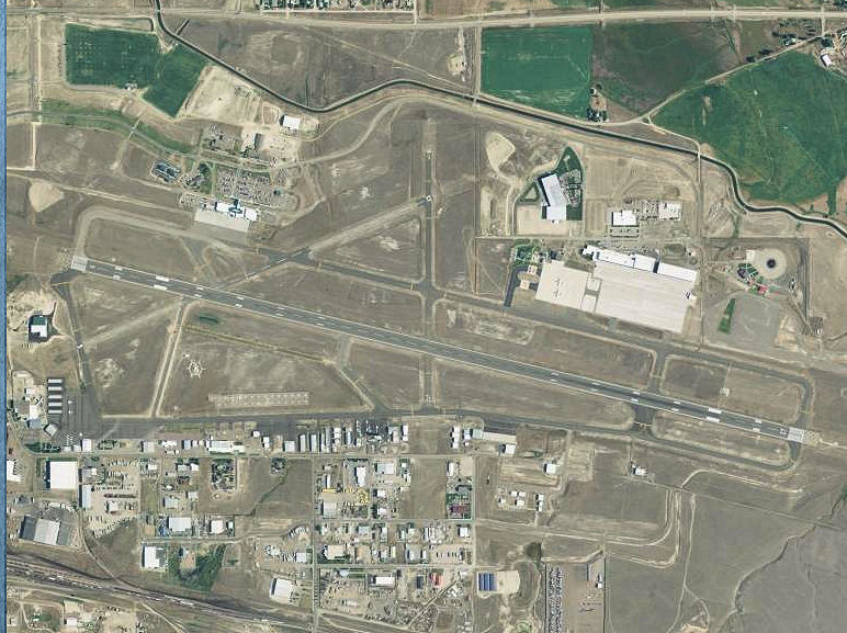 USGS digital orthophoto of Helena Regional Airport in Montana